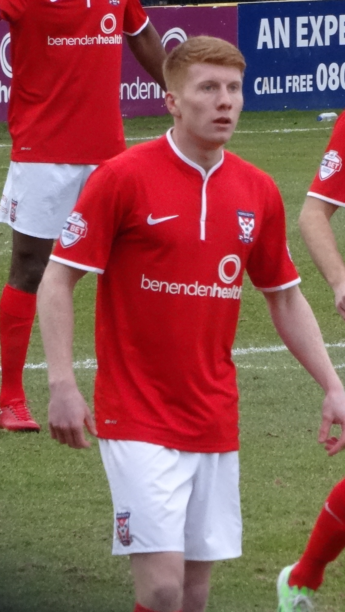 Brad Halliday playing for York City against Exeter City at Bootham Crescent, York on 28 February 2015